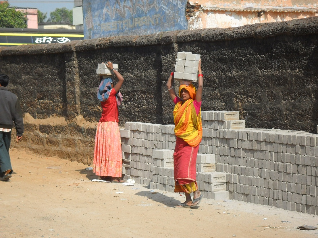 Women at work, carry bricks, Puri, Orissa, India